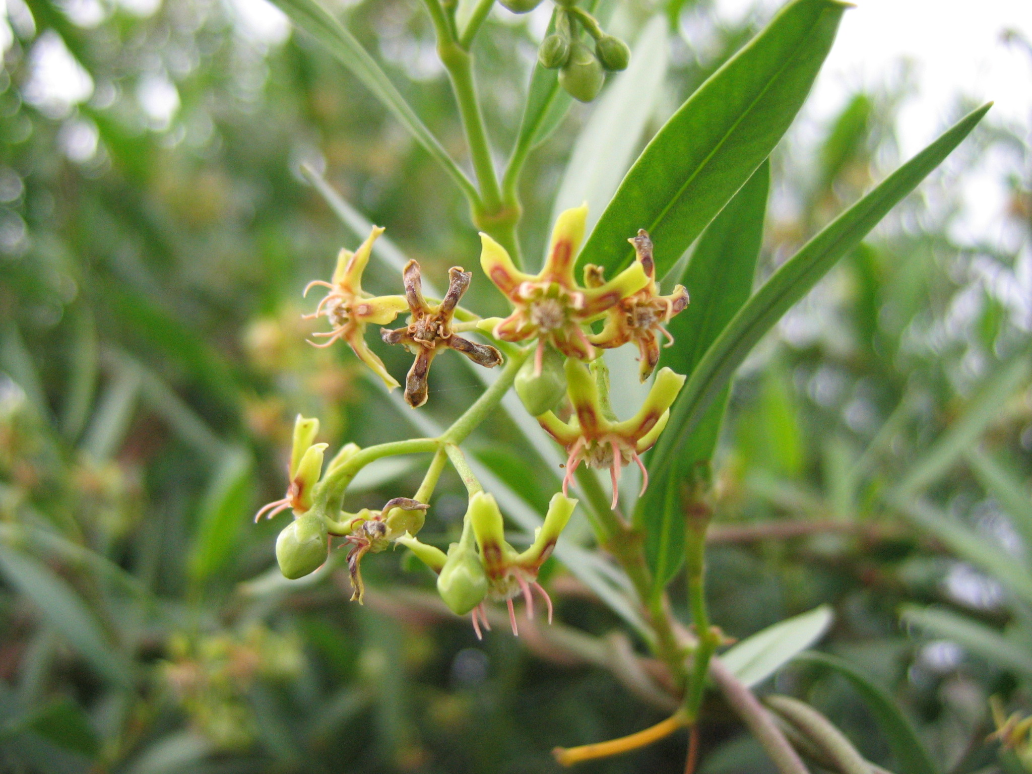 Periploca laevigata Ait., Tenerife, south side